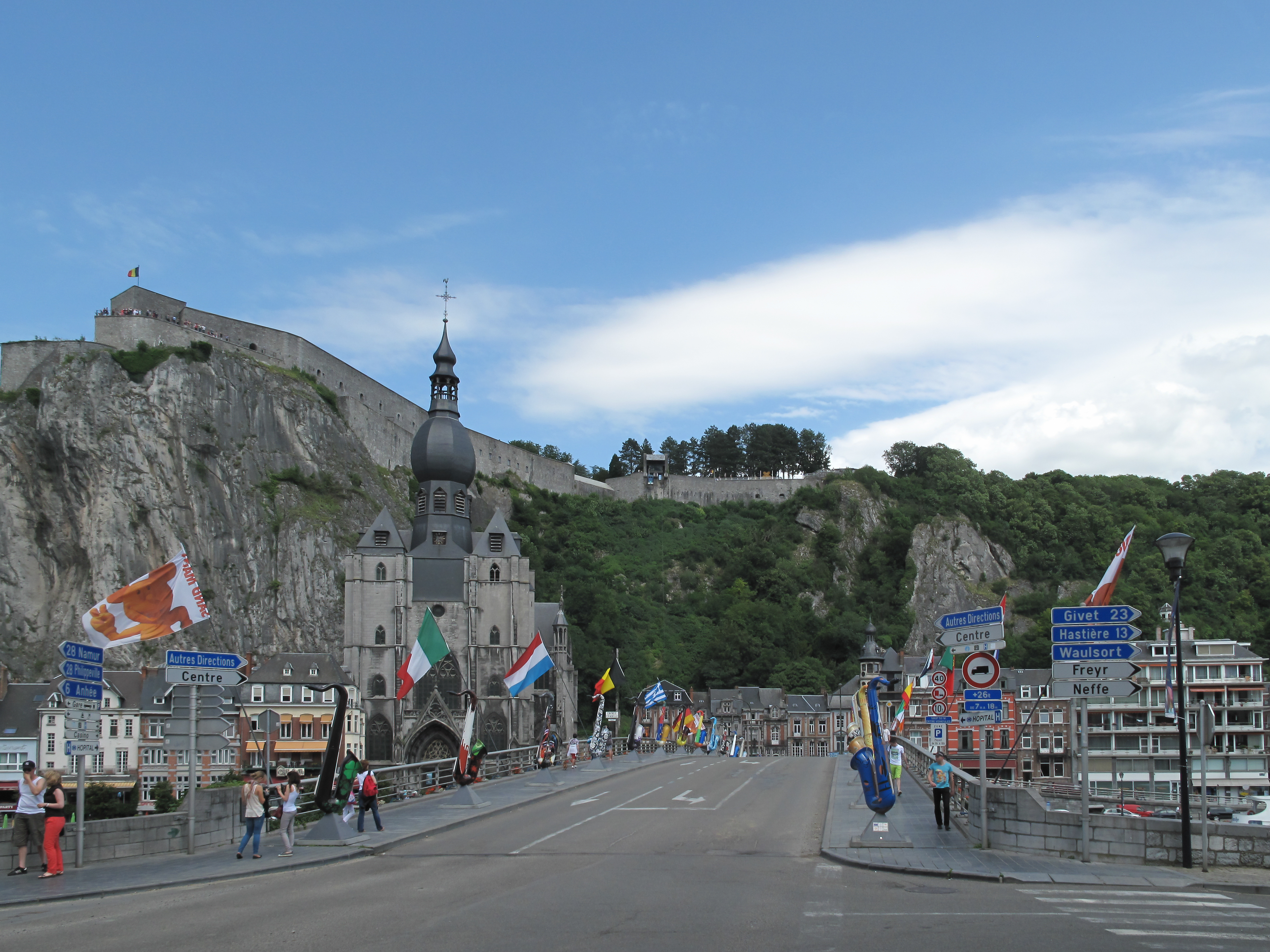 Dinant, church (la Collégiale Notre-Dame) and the bridge across la Meuse